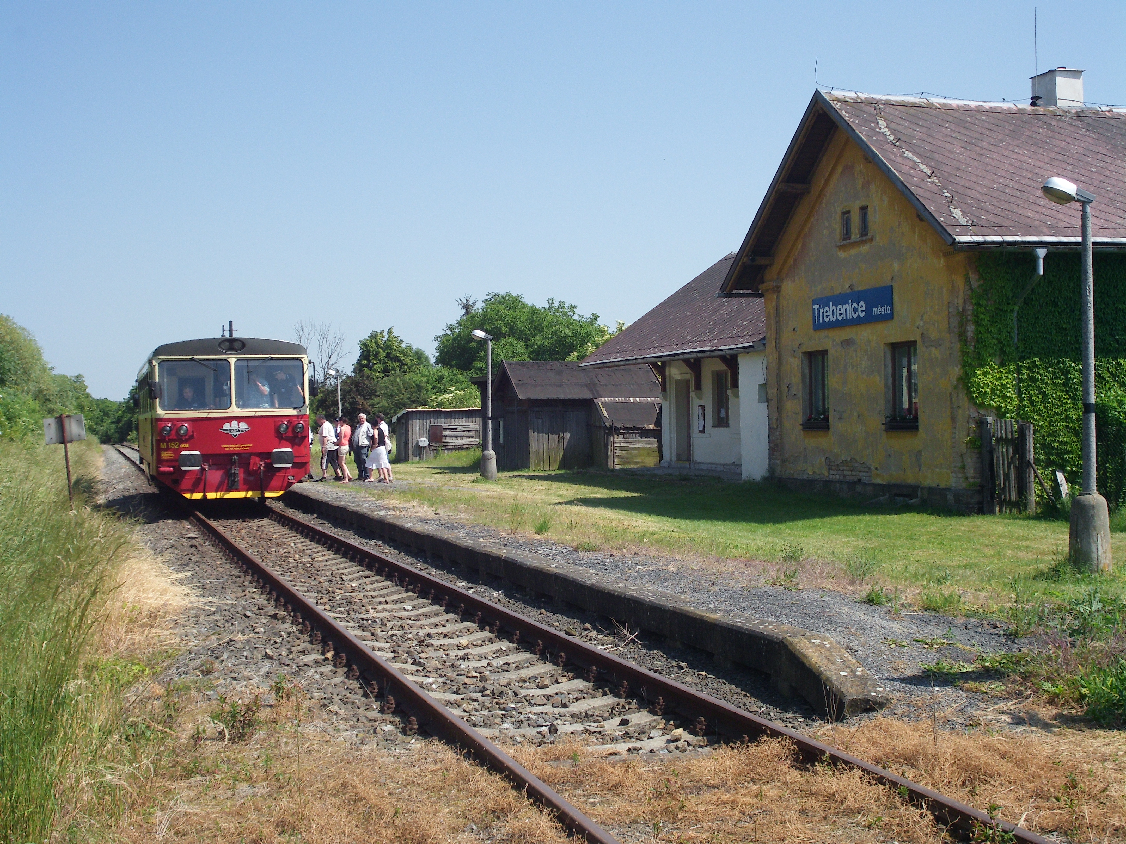 Diesel railcar M152.0535 of KŽC Doprava at a train stop Třebenice (Litoměřice District)vTřebenice město on a railway line from Čížkovice to Obrnice.